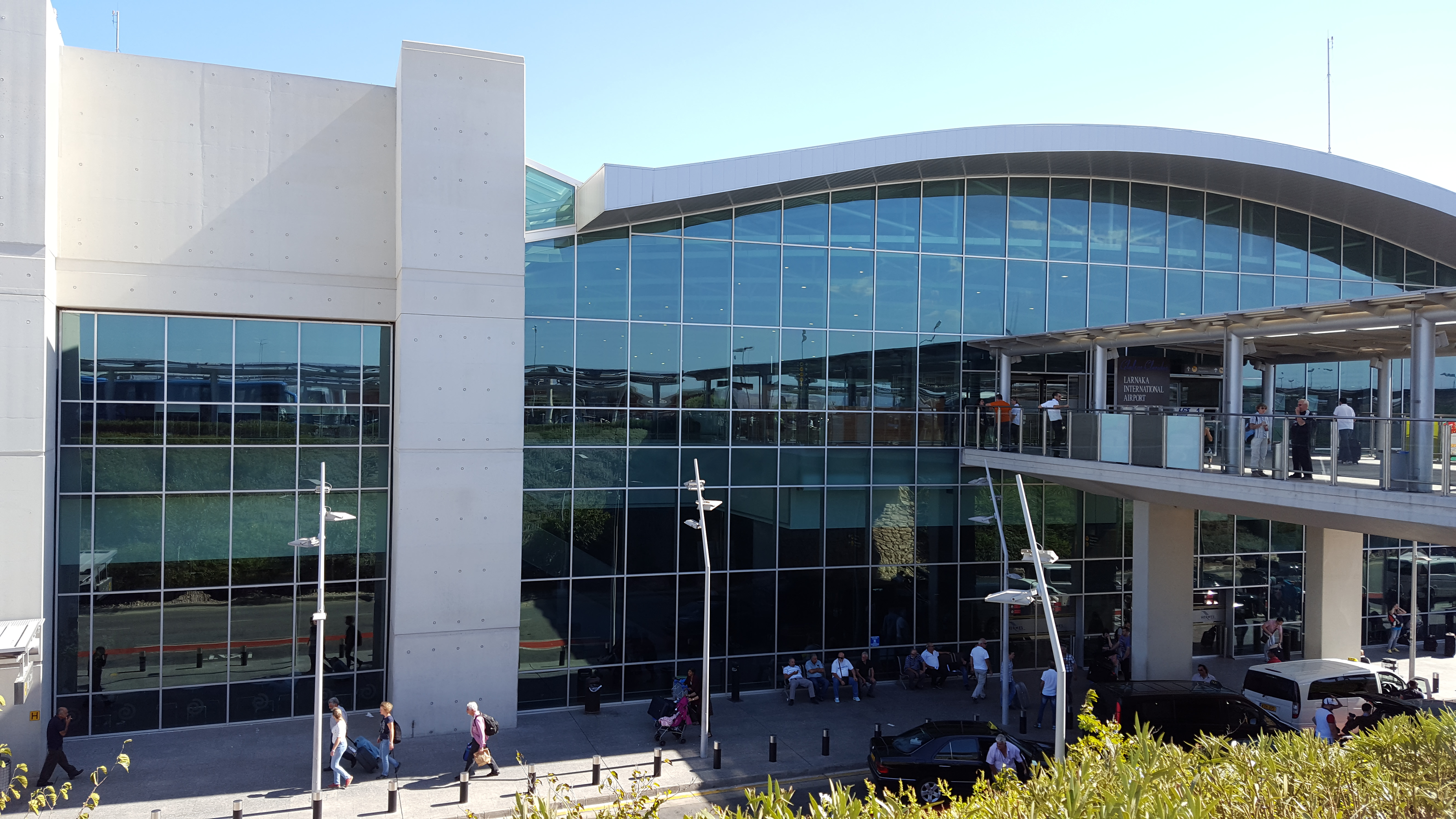 Airport terminal of Larnaca Airport (LCA) from the outside